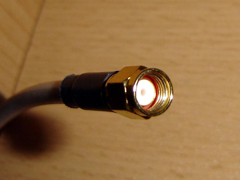 Reverse Polarity SubMiniature version A